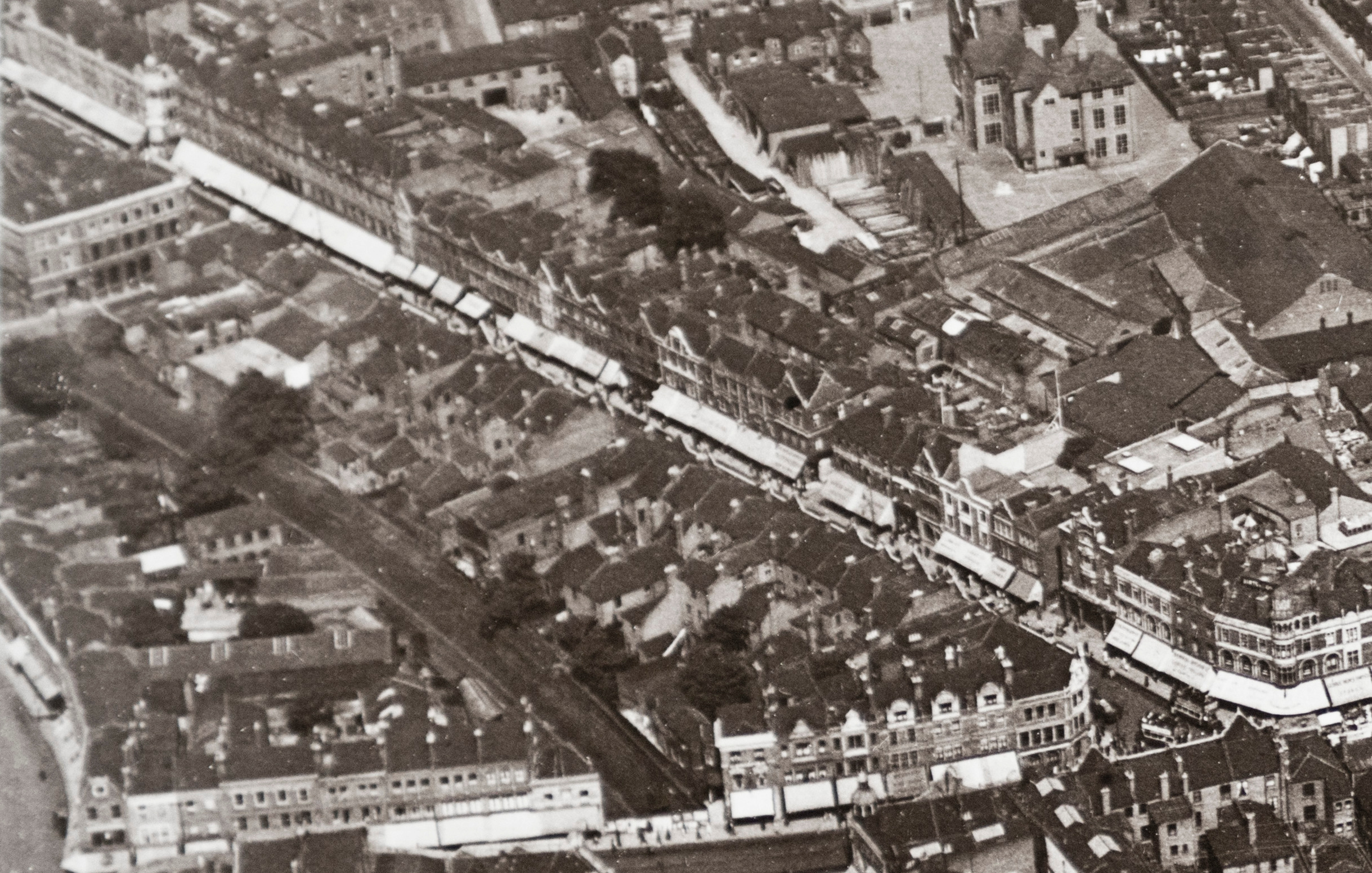 Aerial view of central Woolwich, southeast London, UK. Powis Street runs from top left to bottom right. Collection of Greenwich Heritage Centre.